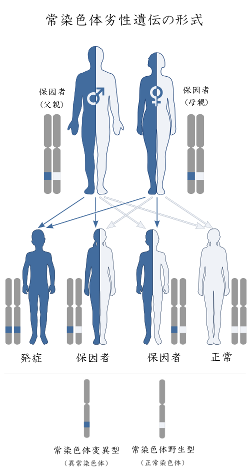 Autosomal recessive inheritance (Japanese version)